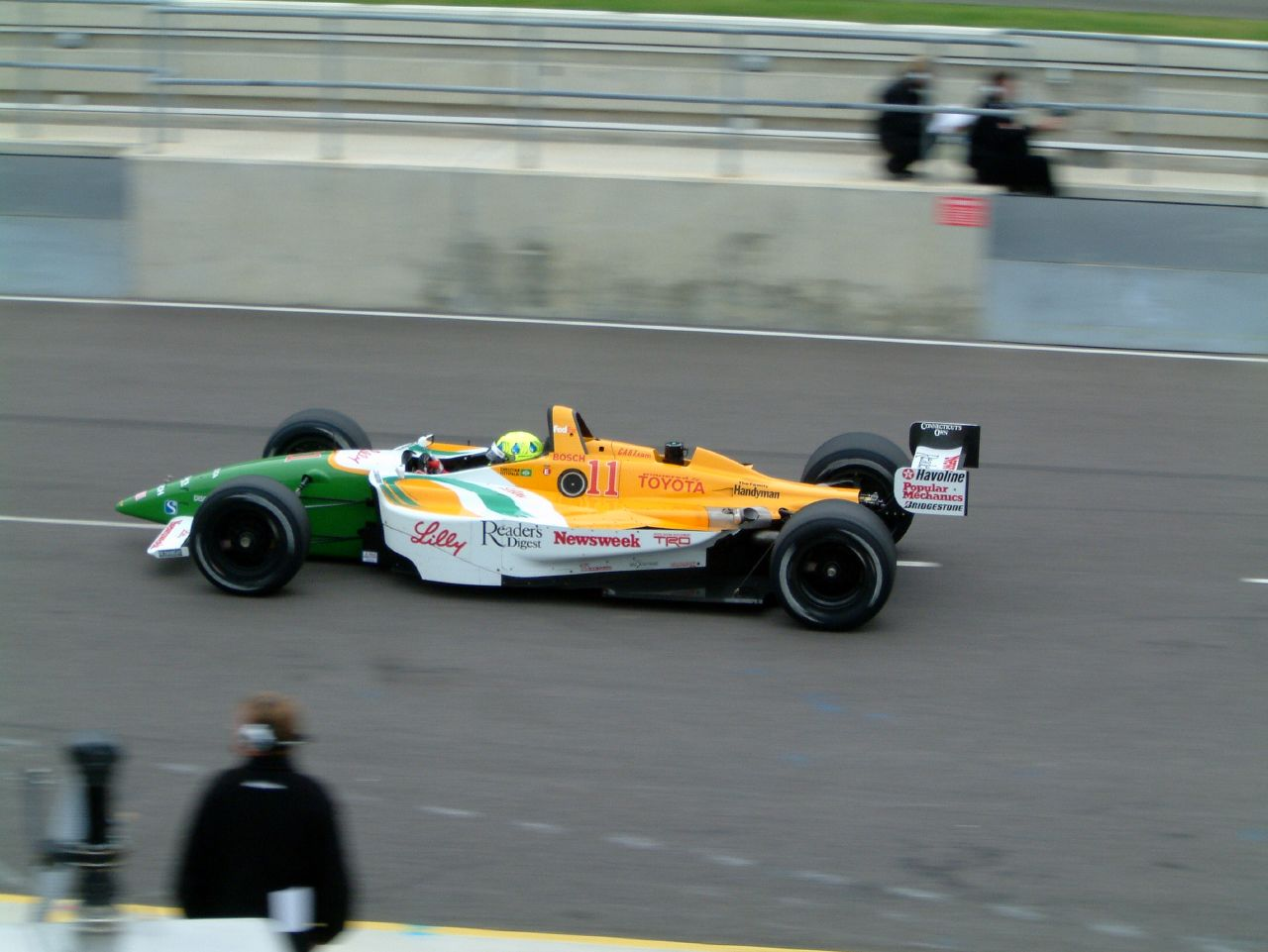 Christian Fittipaldi driving for Newman/Haas Racing at the 2002 Sure For Men Rockingham 500